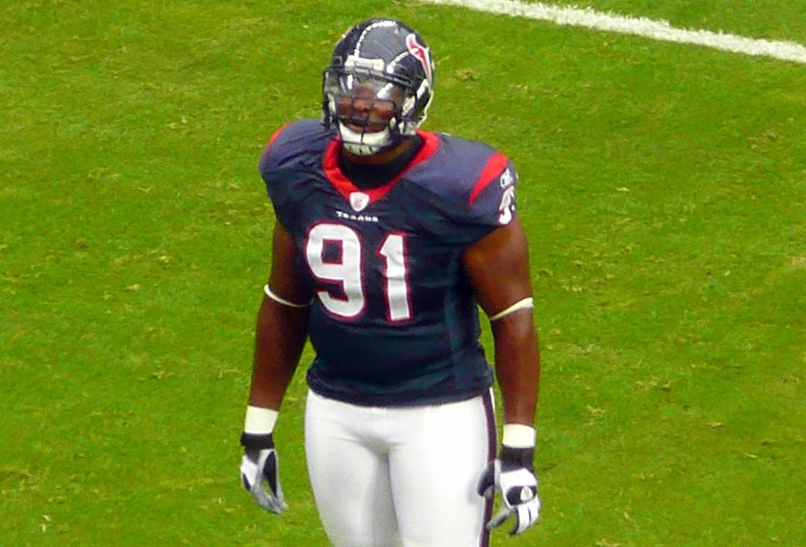 Amobi Okoye.